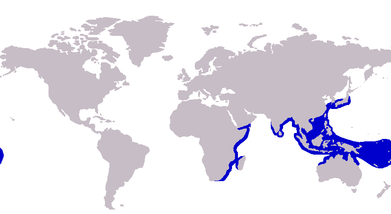 Distribution of coachwhip trevally, Carangoides oblongus using map based on GDFL image